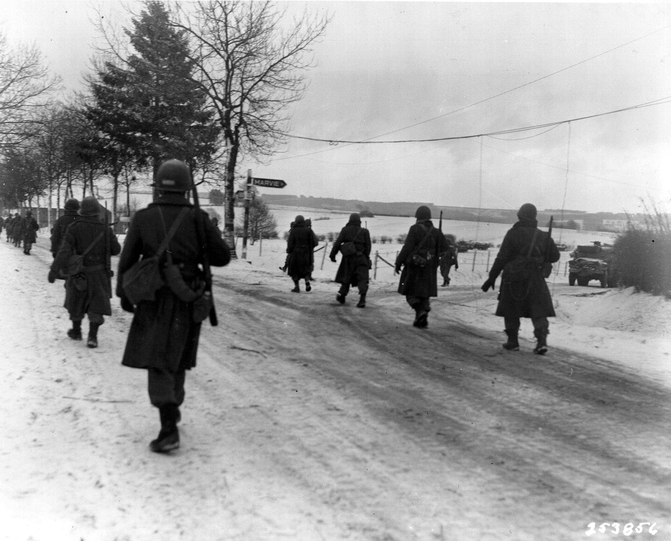 Battle of the bulge - The 101st Airborne troops move out of Bastogne, after having been besieged there for ten days, to drive the enemy out of the surrounding district. Belgium 12/31/44